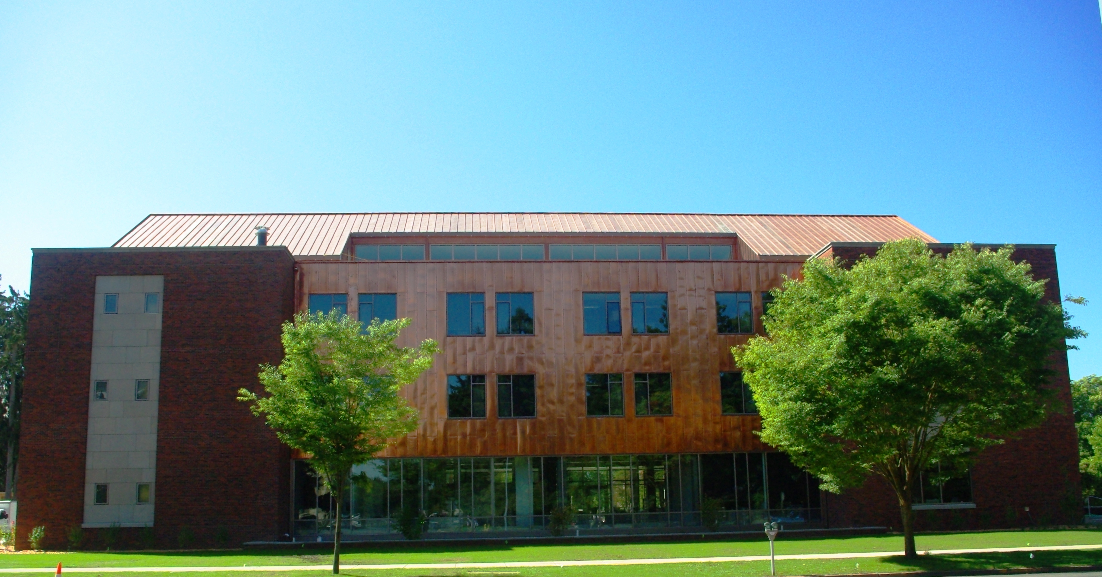 Ford Hall at Willamette University in Salem, Oregon, USA.